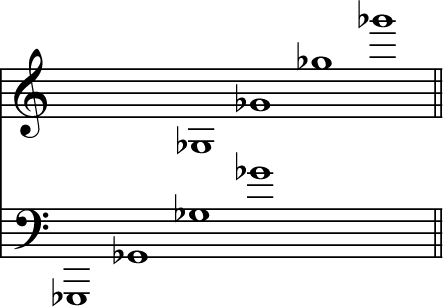 Notes, G Flat